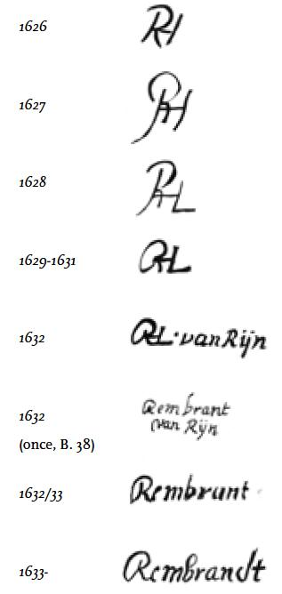 A series of eight signatures by Rembrandt, arranged in a column, with dates from 1626 to 1633